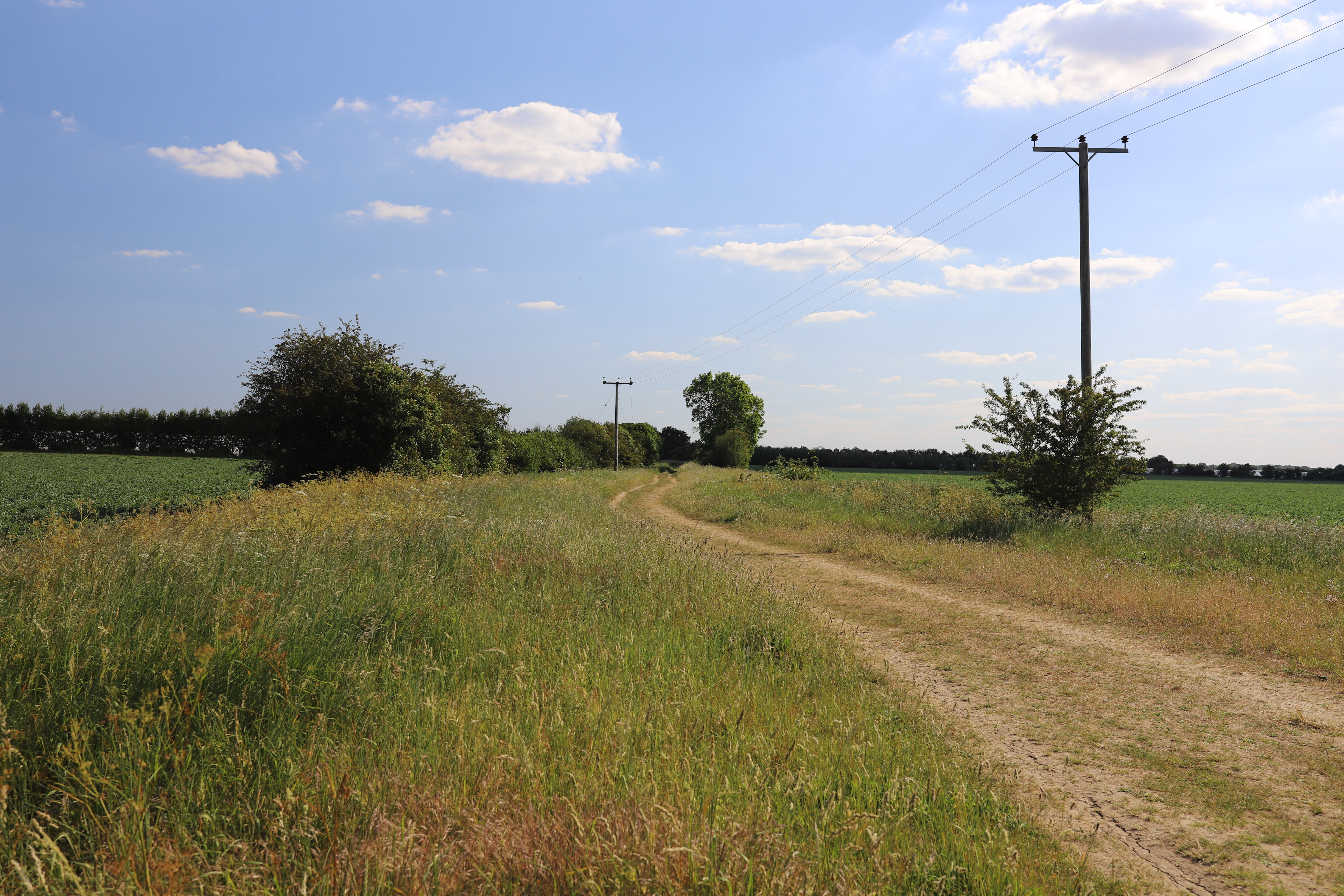 Akeman Street, an ancient Roman Road near Landbeach, Cambridgeshire, England